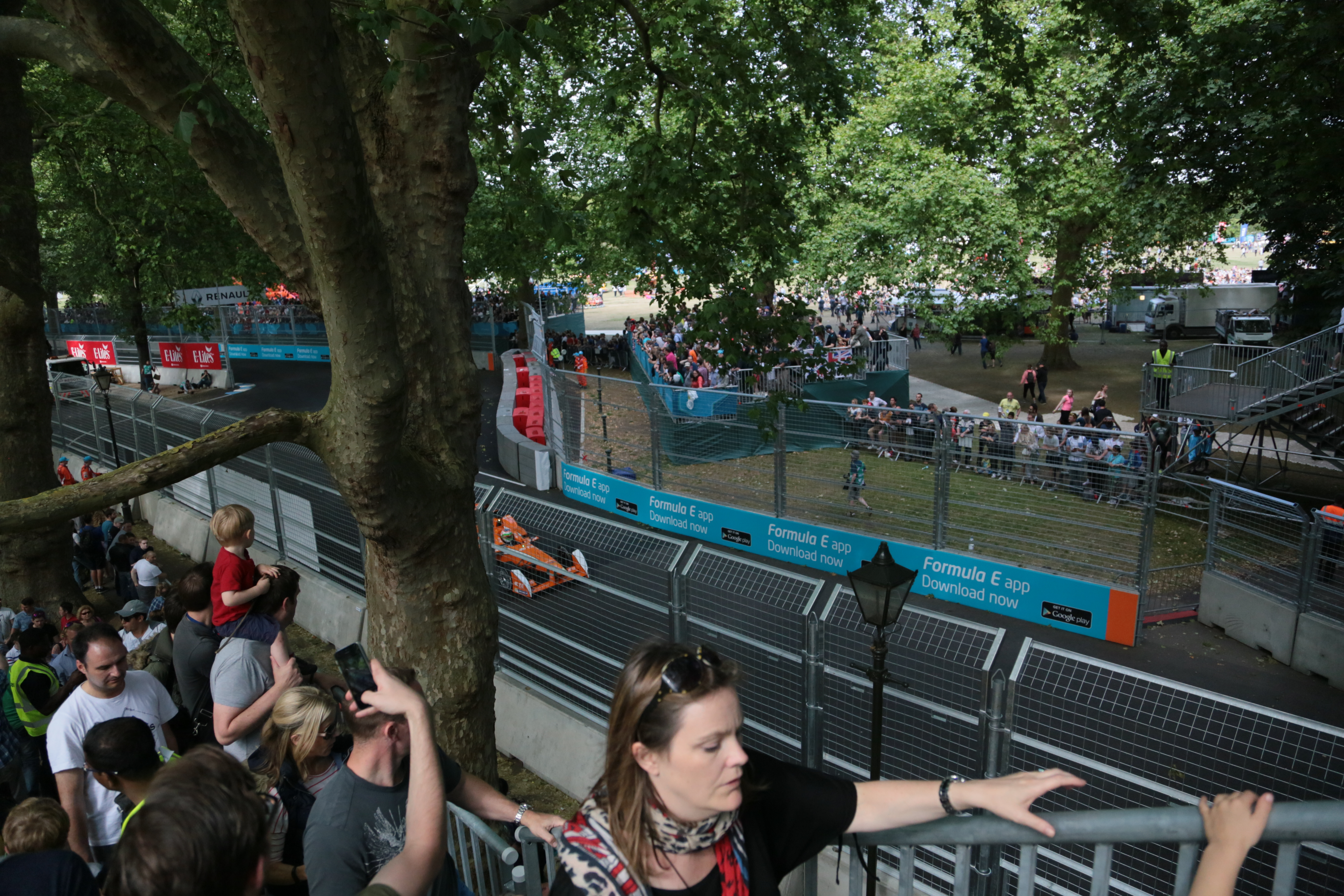 FIA Formula E Championship final London